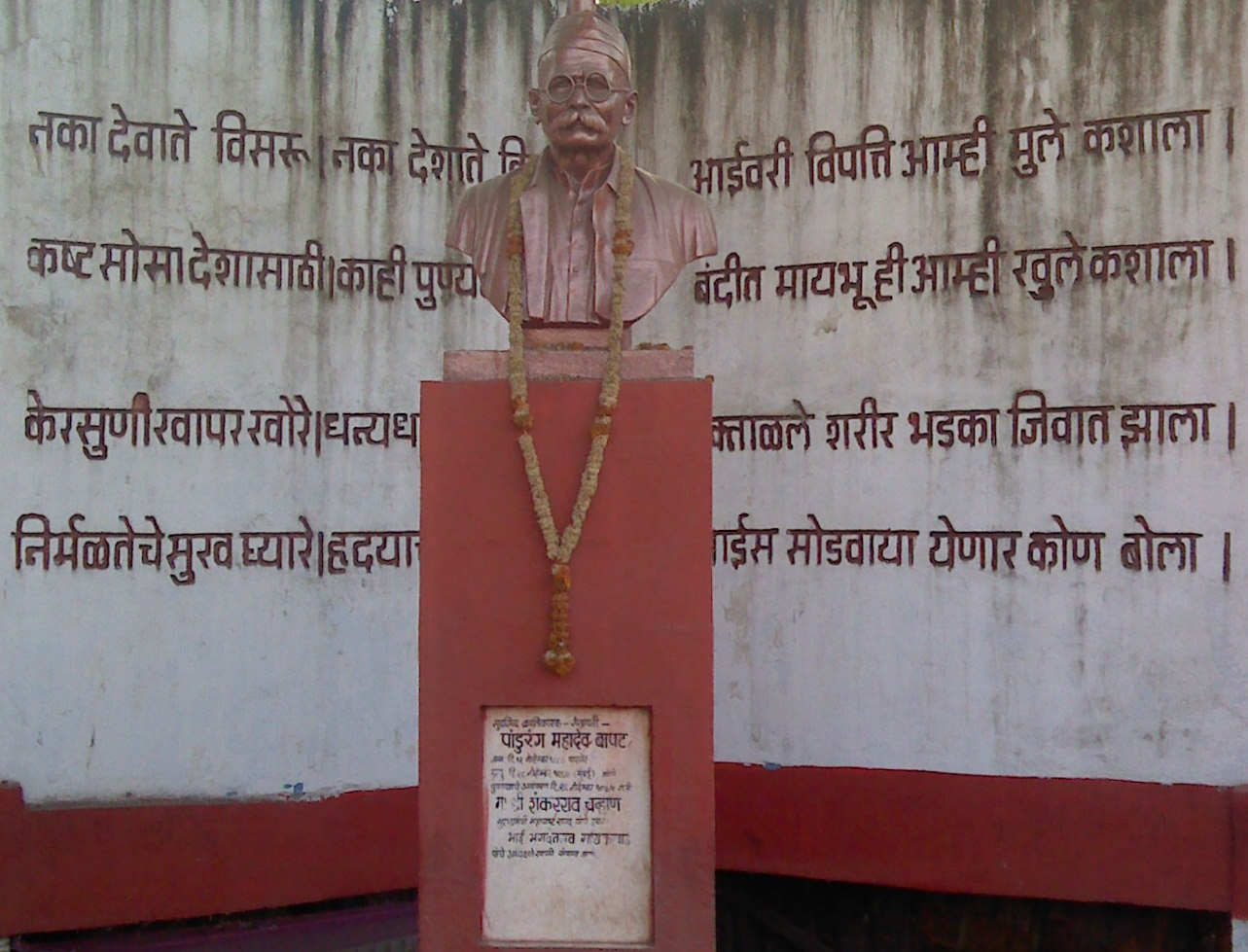 Statue of Senapati Bapat, an Indian revolutionary freedom fighter.